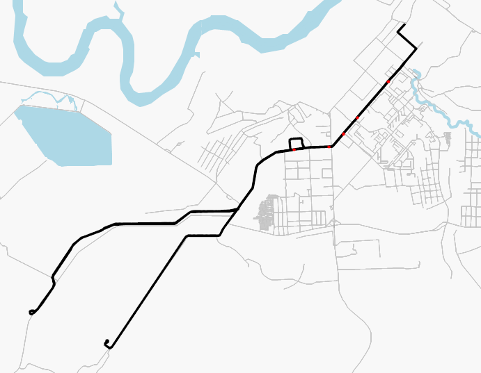 Achinsk tram system, rendered using OSM data. This map may be incomplete, and may contain errors. Don't rely solely on it for navigation.